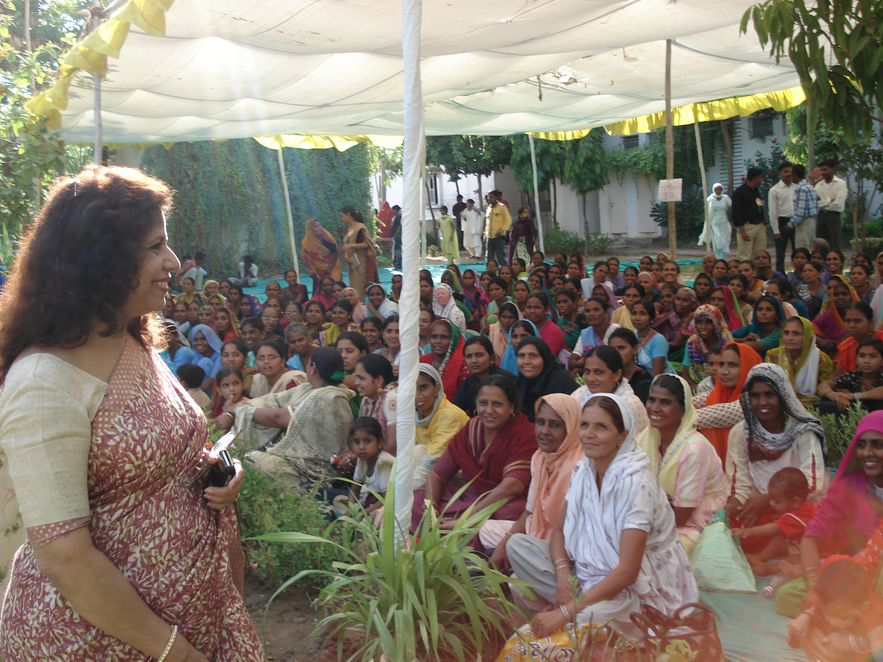 Hina Shah at a meeting with 1500 widows of Gujarat, now economically independent and earning between INR 2000 to INR 50000 a month